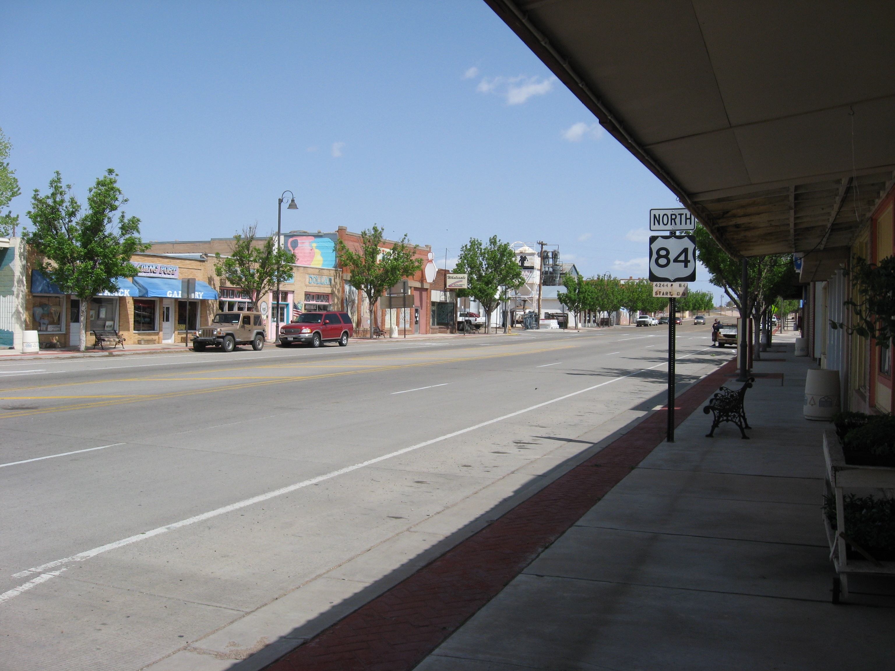 Fort Sumner, New Mexico